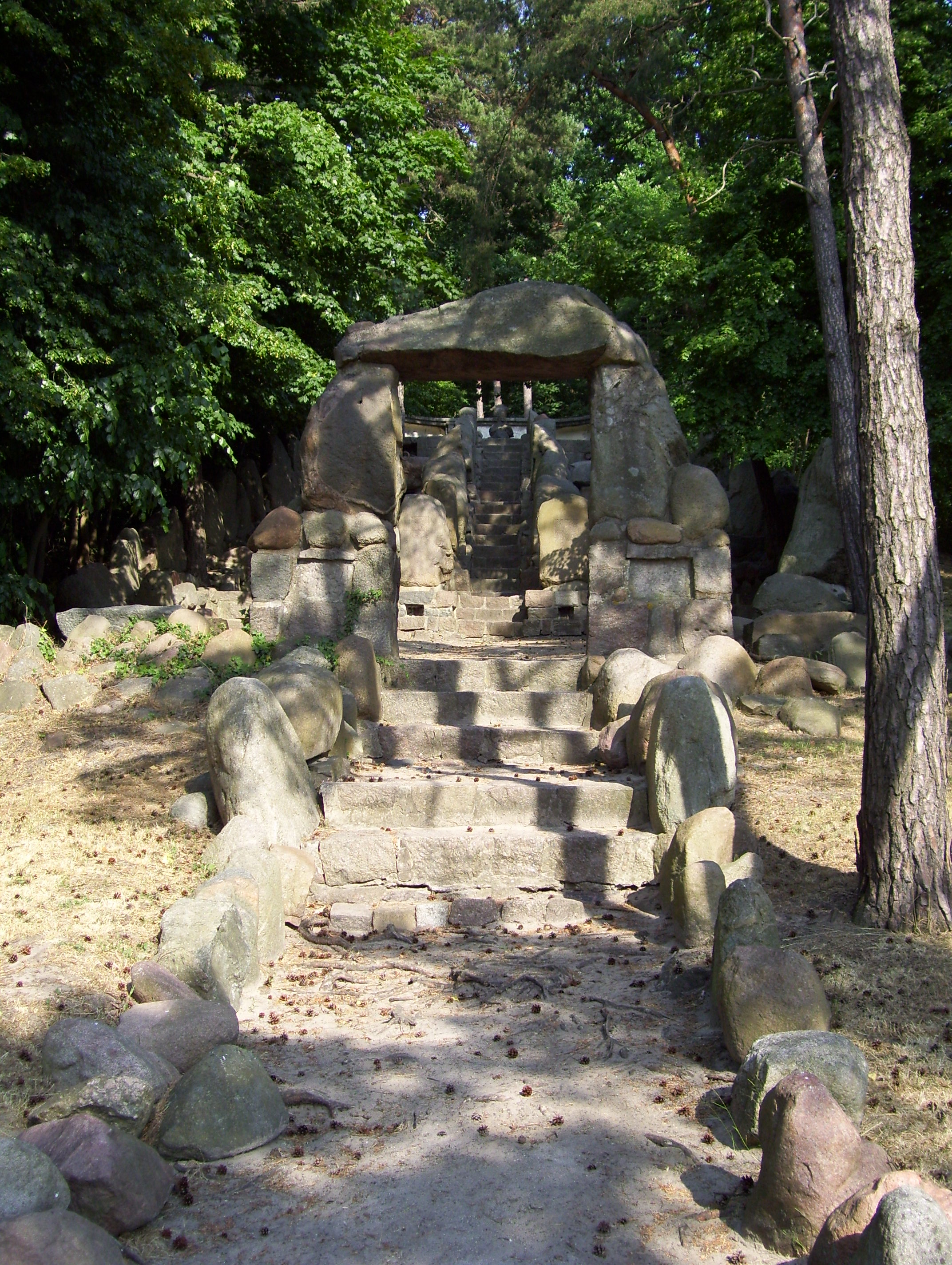 Memorial for the Ulans in Demmin